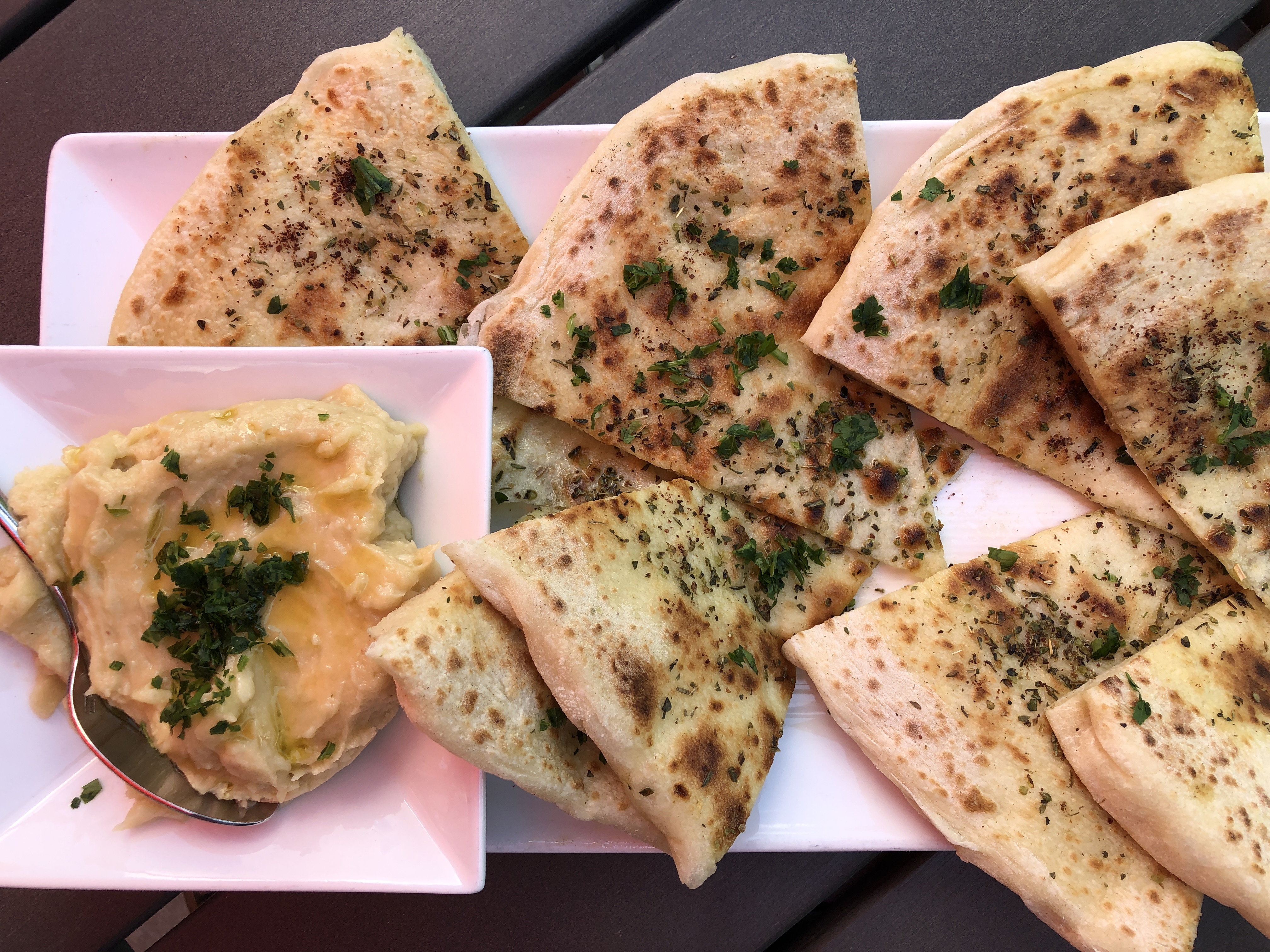 Laffa with skordalia at The Shore Room in Reno, Nevada